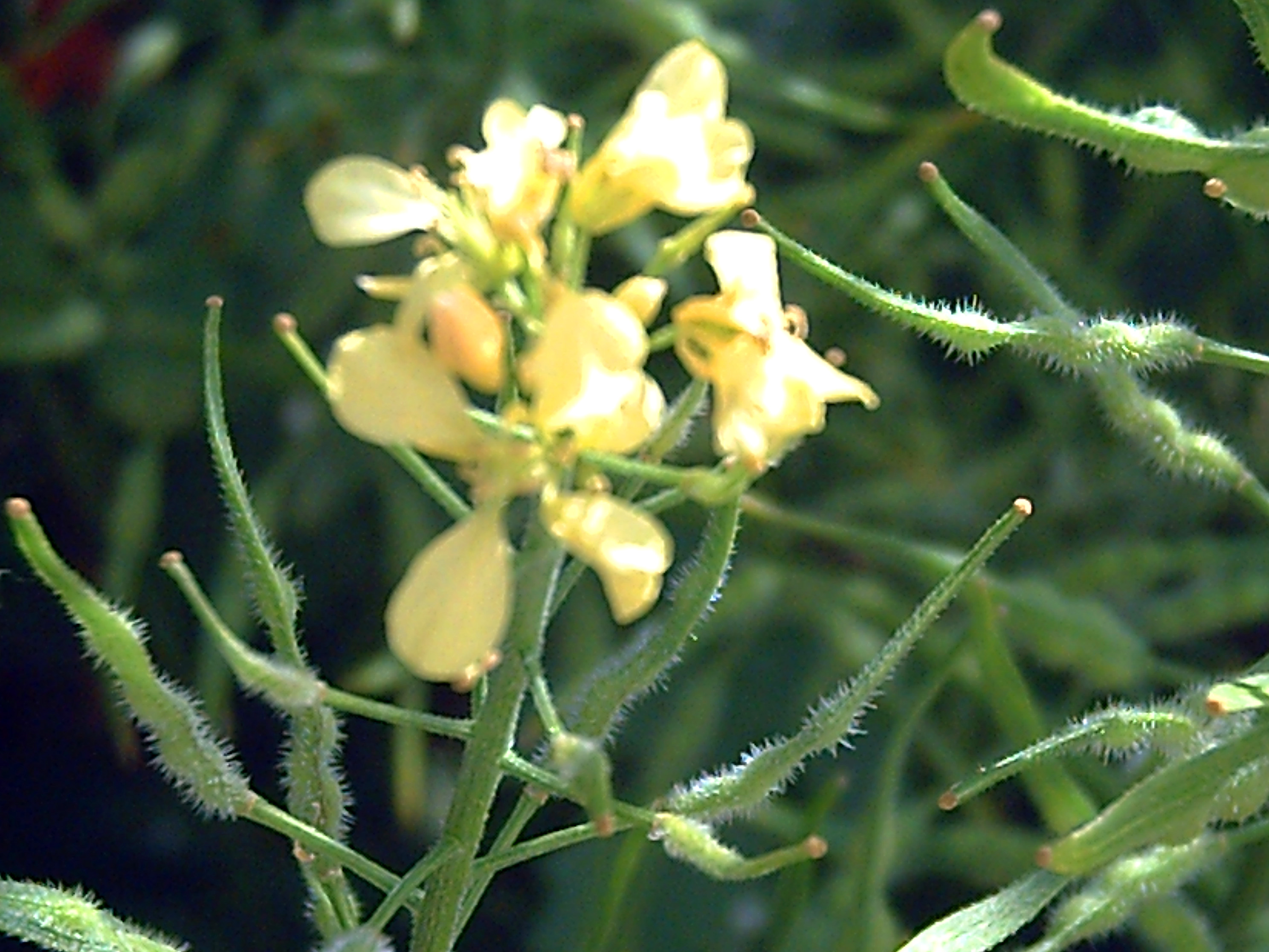 Sinapis alba flowers and silicua, Dehesa Boyal de Puertollano, Spain